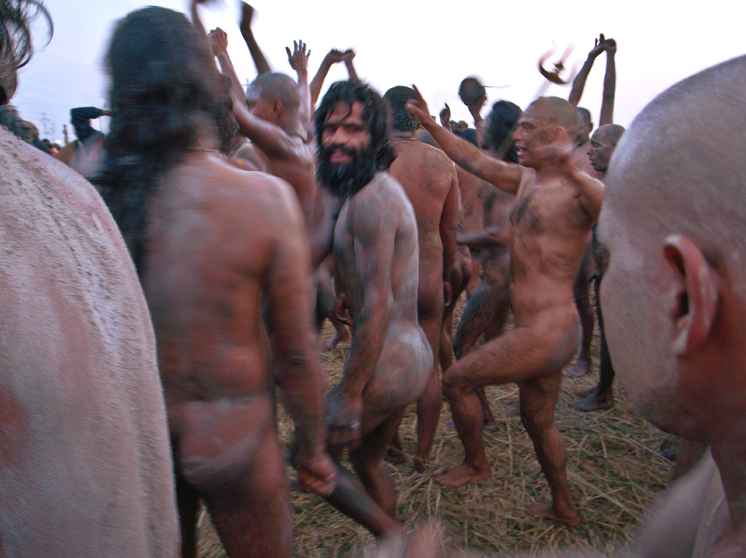 Nagababa running to their rituel bath at Sangam during Allahabad Ardh Kumbhmela 2007.